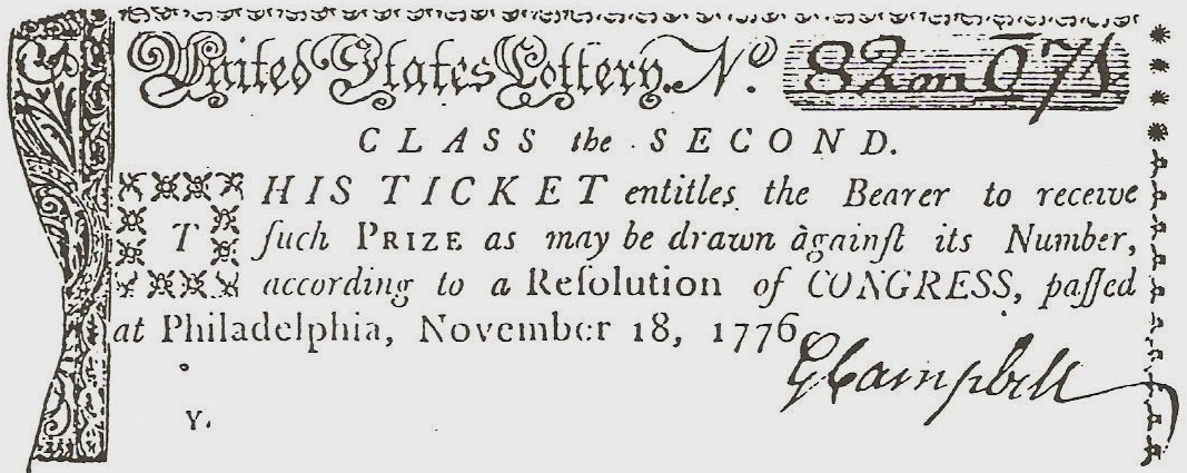 I took this photo of a lottery document I own